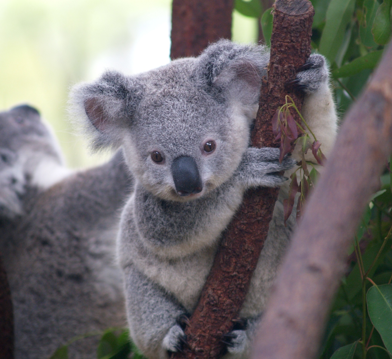 Baby koala, captured at Currumbin Wildlife Sanctuary